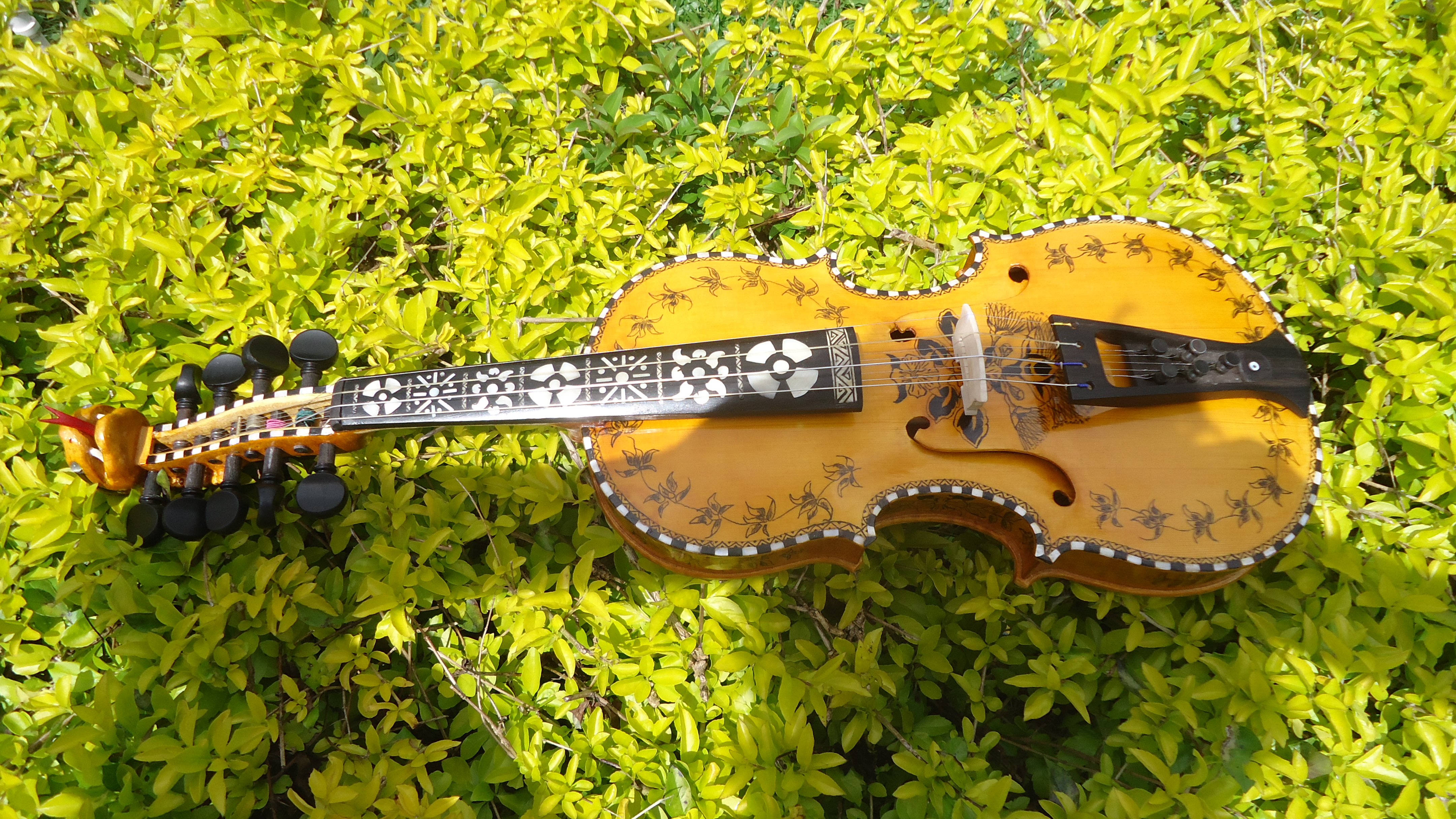 Norway Folk Musical Instrument with Brazilian motiffs.